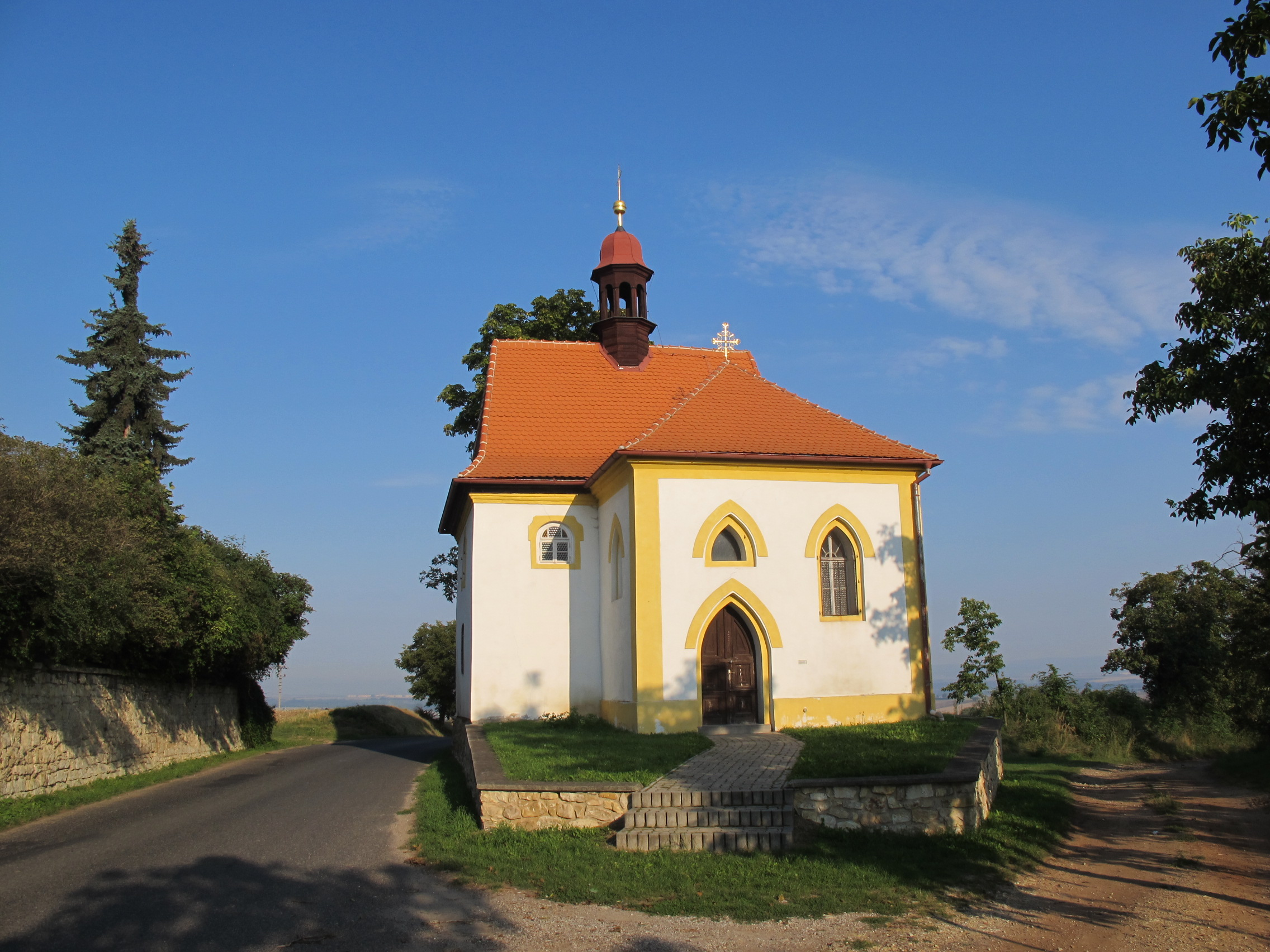 Chapel of Assumption of Mary in Tuchořice